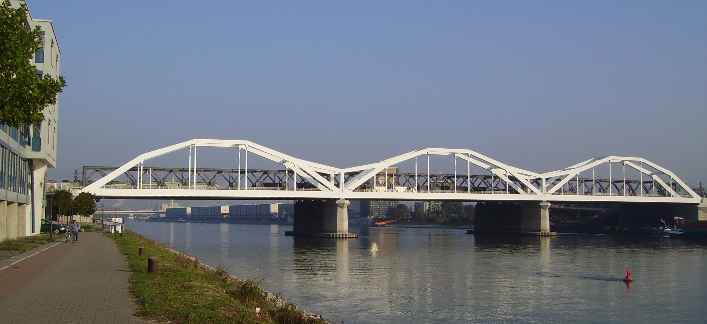 Bridge over the Rhine River between Mannheim and Ludwigshafen in Rheinland-Pfalz (Germany)